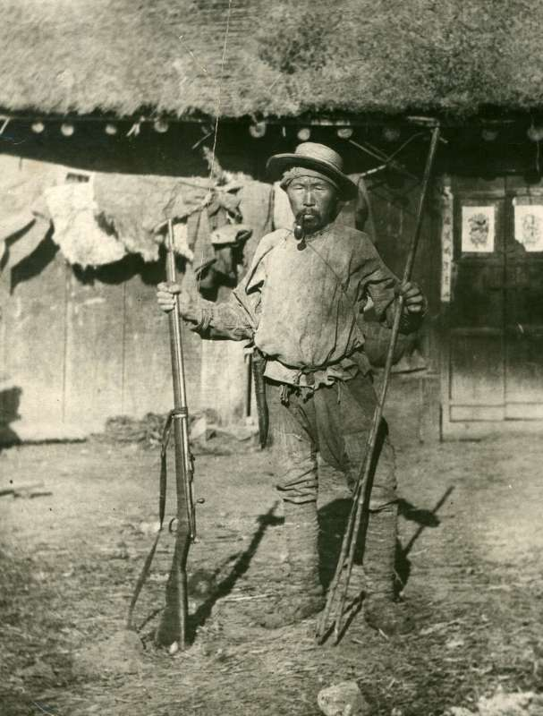 Dersu Uzala, a Nanai hunter and the guide of the Russian explorer Vladimir Arsenyev, and the main character of an eponymous motion picture